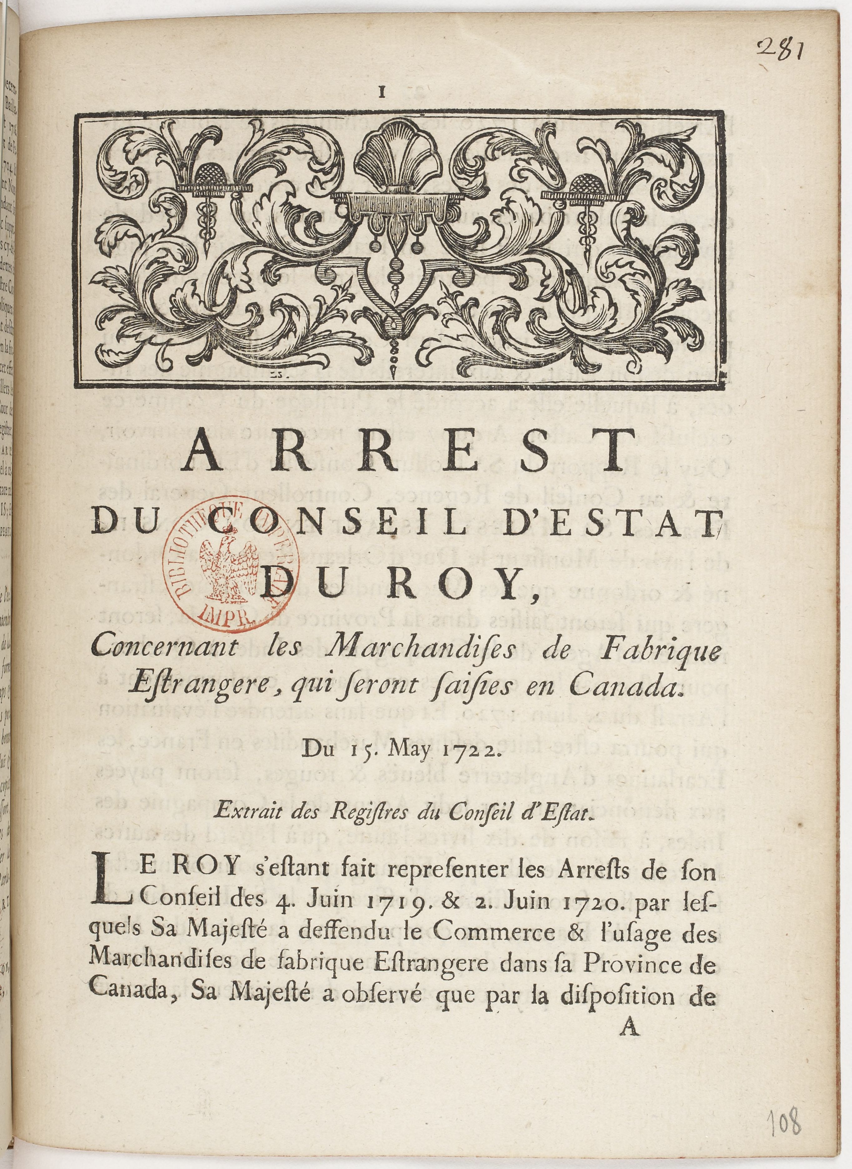 Page frontispice de la Décision démontrant qu'à l'époque le Conseil royal désignait officiellement le Canada sous le nom de "Province de Canada"